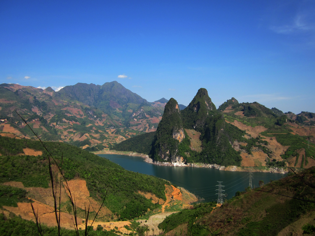 View from the Moc Chau Plateau to the Hoa Binh Reservoir - North Vietnam